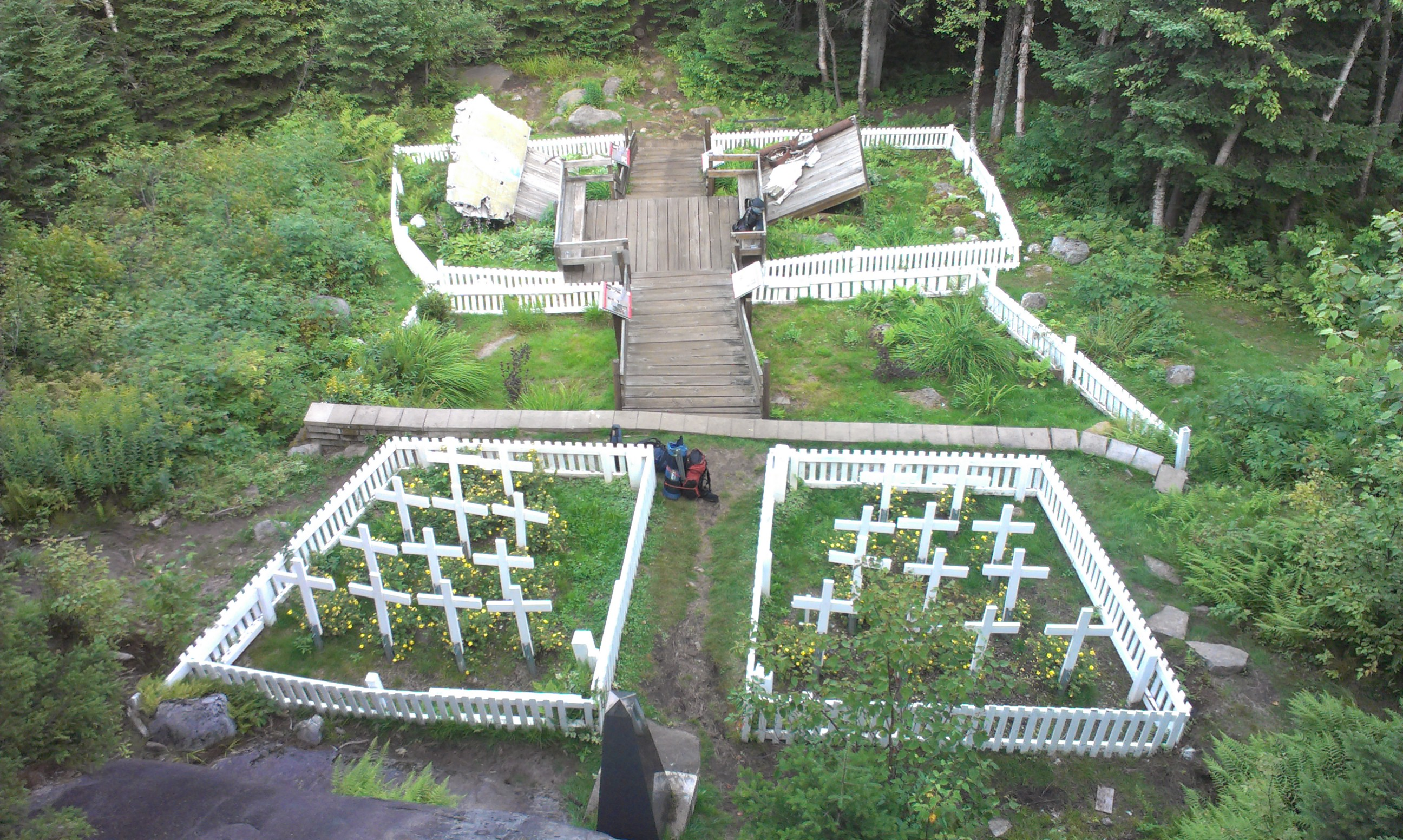 A view of the commemorative monument built at the 1943 Saint-Donat B-24D Liberator crash site taken from the observation tower.